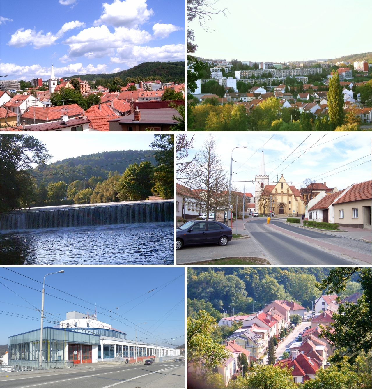 Trolleybus depot Komín in Brno-Komín, South Moravian Region, Czech Republic